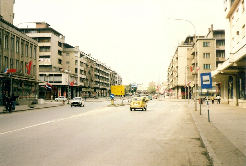 Downtown Požarevac in the late eighties.